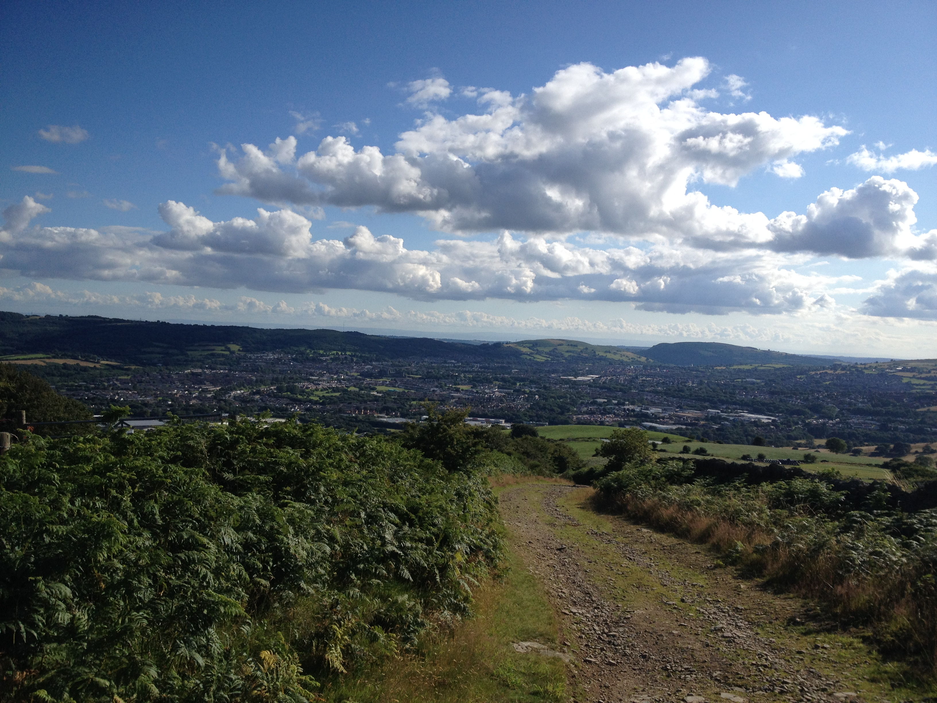 A view of Bedwas and Caerphilly from National Cycle Route 47 also known as the Celtic Trail cycle route. The hill is accessed from the Ynys Hywel Activity Centre between Cwmfelinfach and Ynysddu.